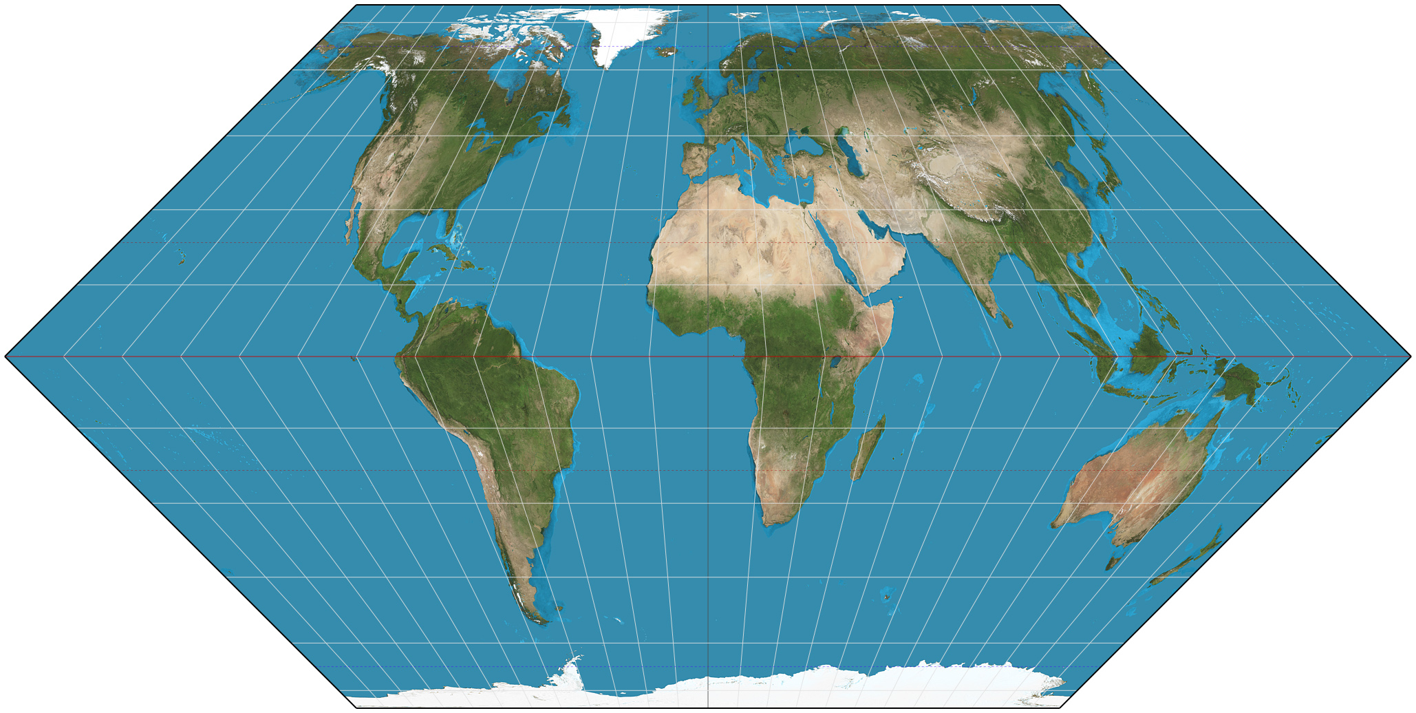 The world on Eckert II projection. 15° graticule. Imagery is a derivative of NASA’s Blue Marble summer month composite with oceans lightened to enhance legibility and contrast. Image created with the Geocart map projection software.